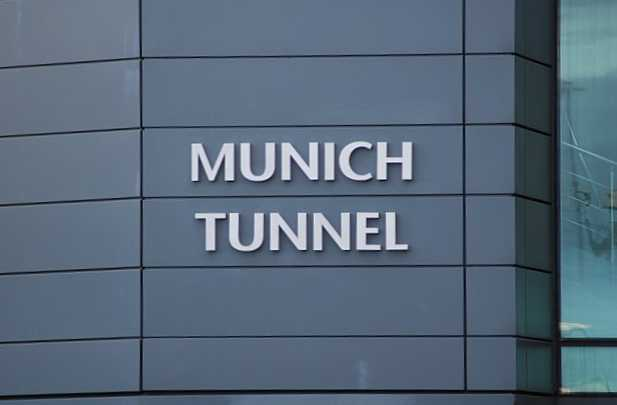 Munich Tunnel at Old Trafford